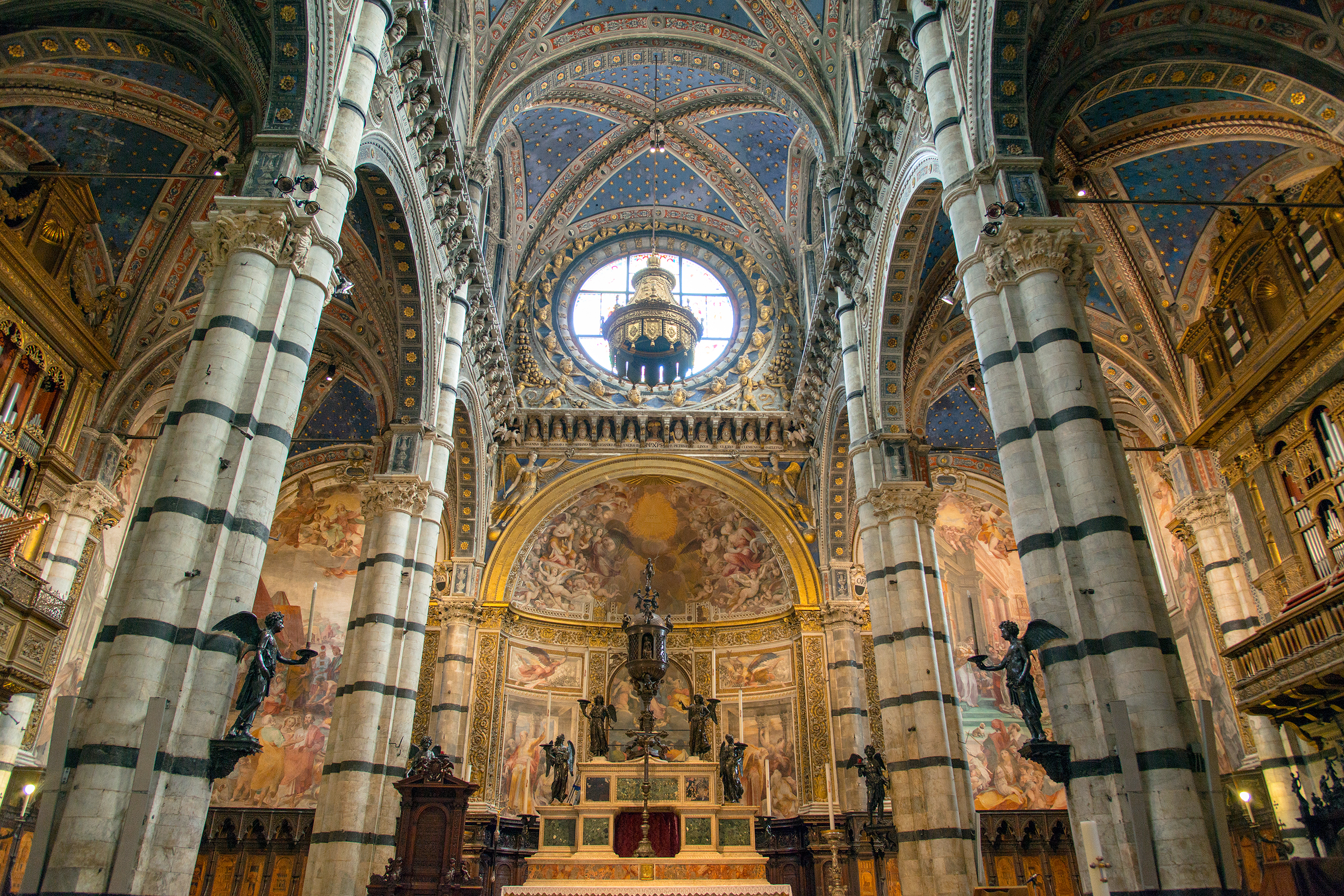 Siena Cathedral Presbitery